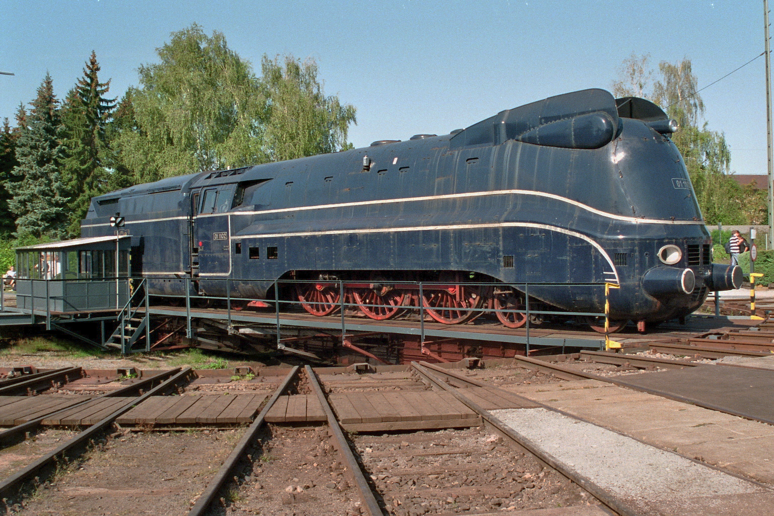 The streamlined steam locomotive 01 1102 at the Süddeutsches Eisenbahnmuseum Heilbronn